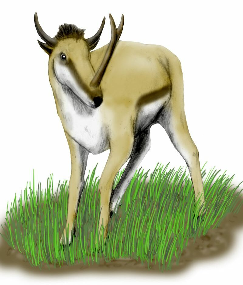 Synthetoceras tricornatus, a protoceratid from the Late Miocene of Texas, pencil drawing, digital coloring